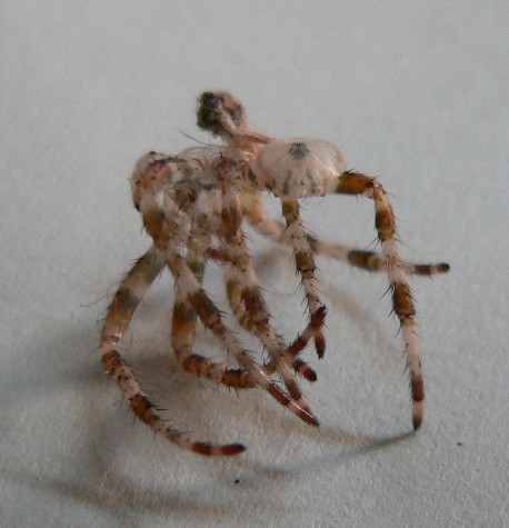 Araneus diadematus, cross spider, The cross spider in my room went away for 3 days and came back with smaller belly, but with bigger legs. Afterwards I found the shedded skin.